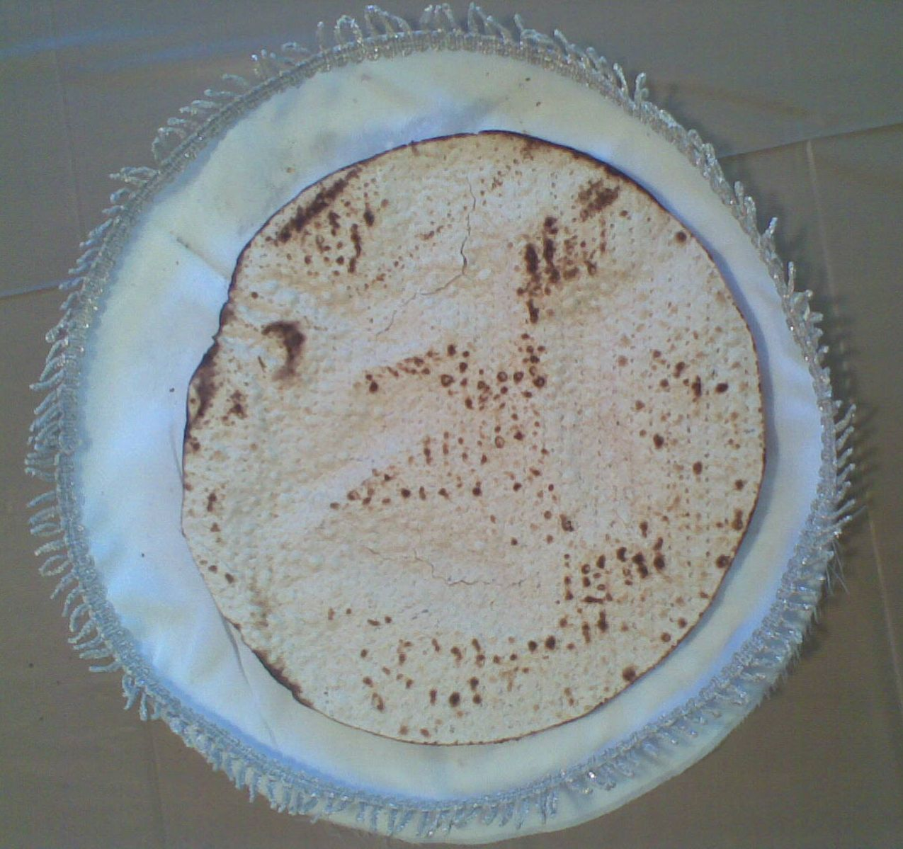 Hand-baked shmurah matza